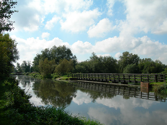 Spellbrook weir. The weir is a few metres downstream from Spellbrook Lock.